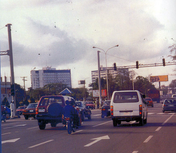 This is a personal file